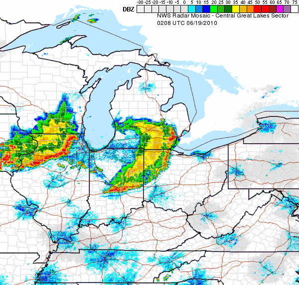 National Weather Service Enhanced Radar Mosaic Loop GL, on the night of June 18th showing the two destructive derechos in the Midwest.